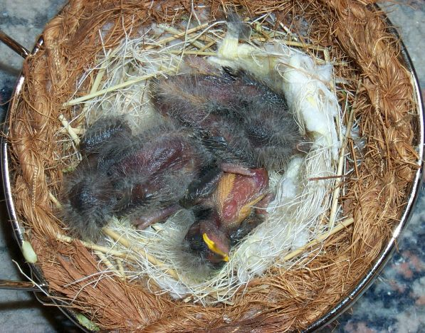 Serinus mozambicus